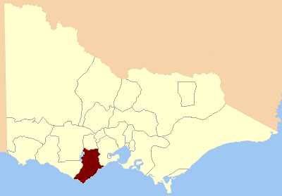 Electoral district of Polwarth and South Grenville, Victorian Legislative Assembly